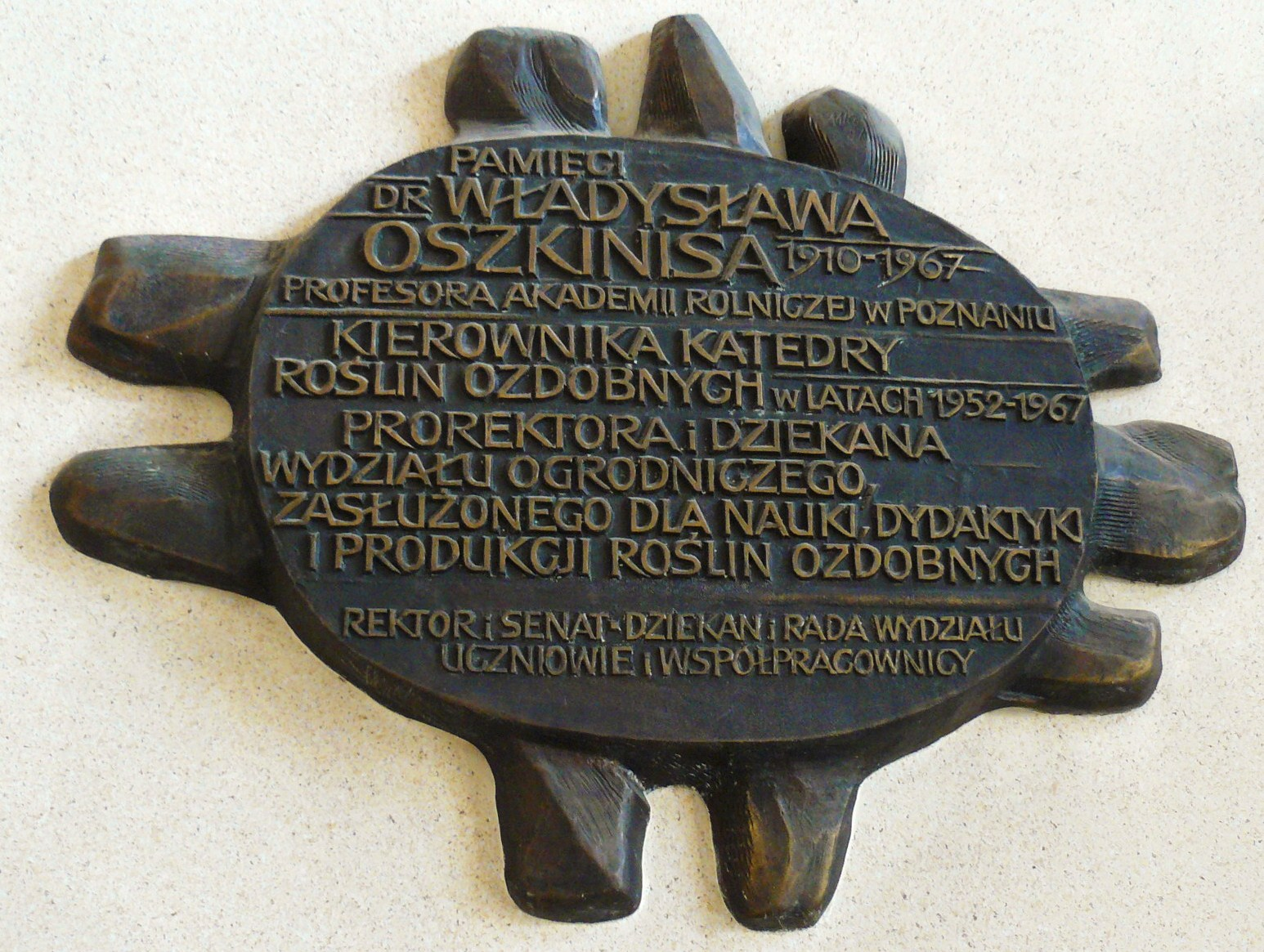 Wladyslaw Oszkinis Plaque, Poznan, Collegium Zembala.